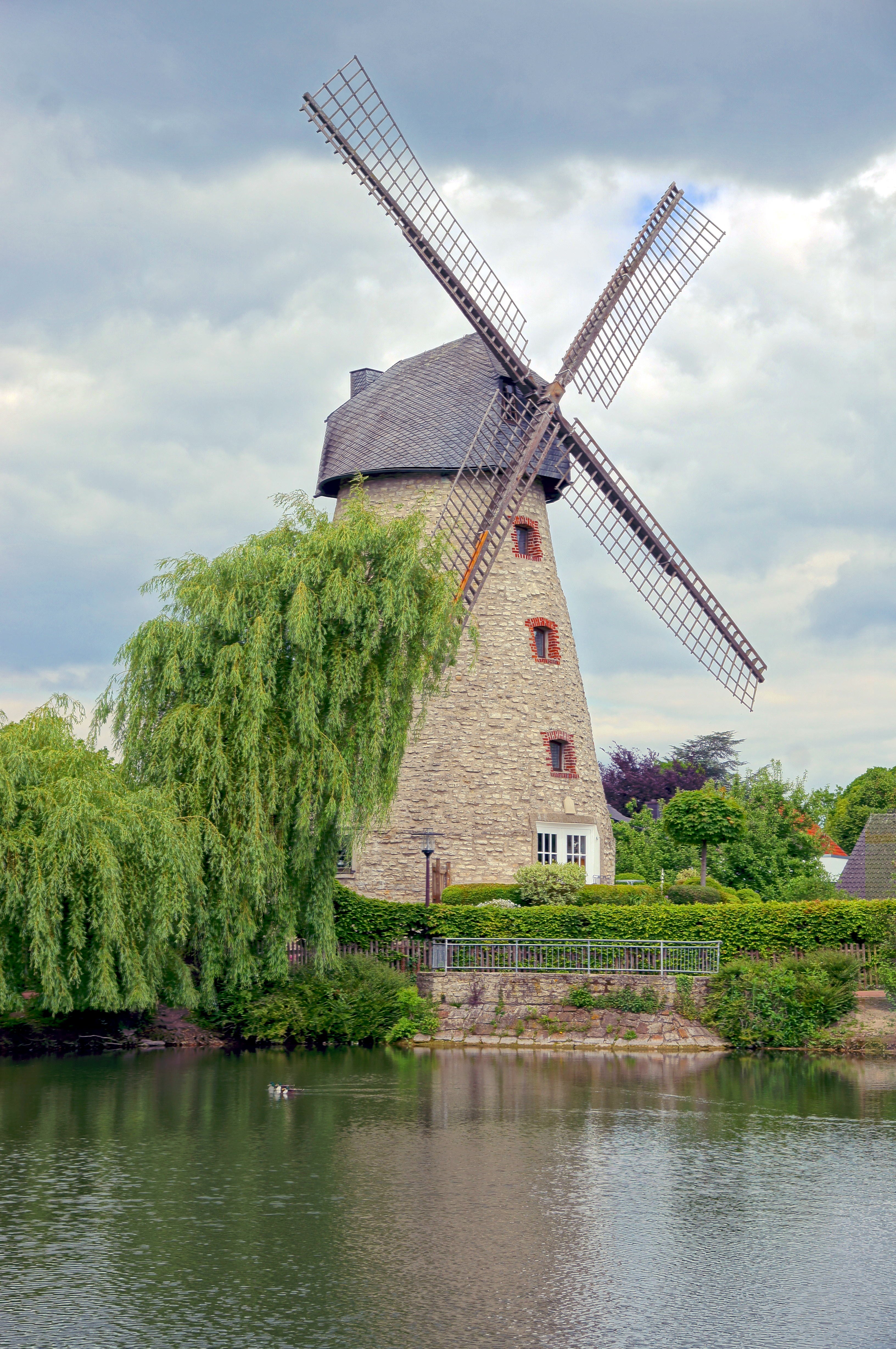 Windmill in Laer, district of Steinfurt, North Rhine-Westphalia, Germany. This is a photograph of an architectural monument. 02